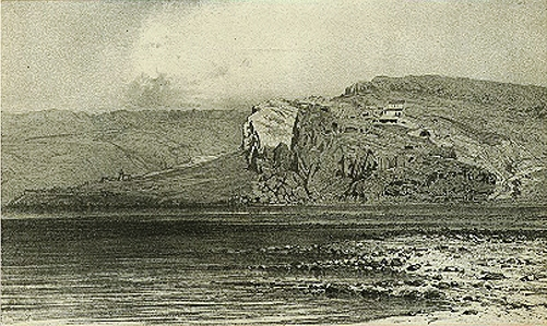 Uplistsikhe, General view from South